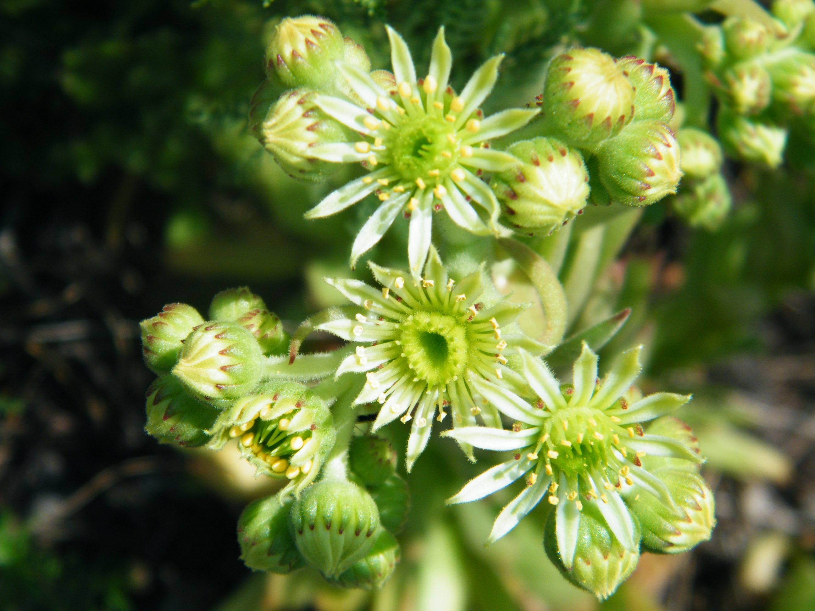 Sempervivum ruthenicum in Buzkiy Gard